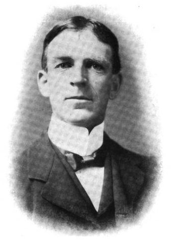 Photograph of William Wallace Campbell, the astronomer